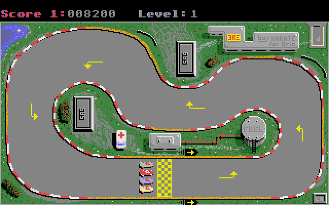 Screenshot of the track #02 of the video game Turbo GT created by Christophe Andreani for the Atari ST computer and published by Ere Informatique in 1986.